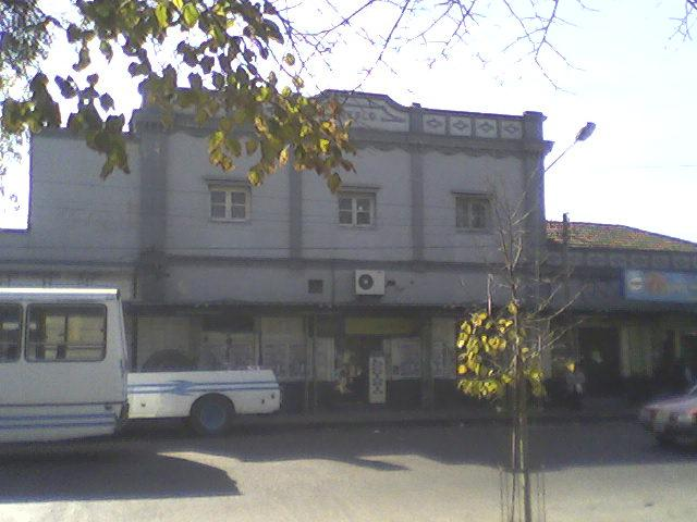 Merlo Railway Station.